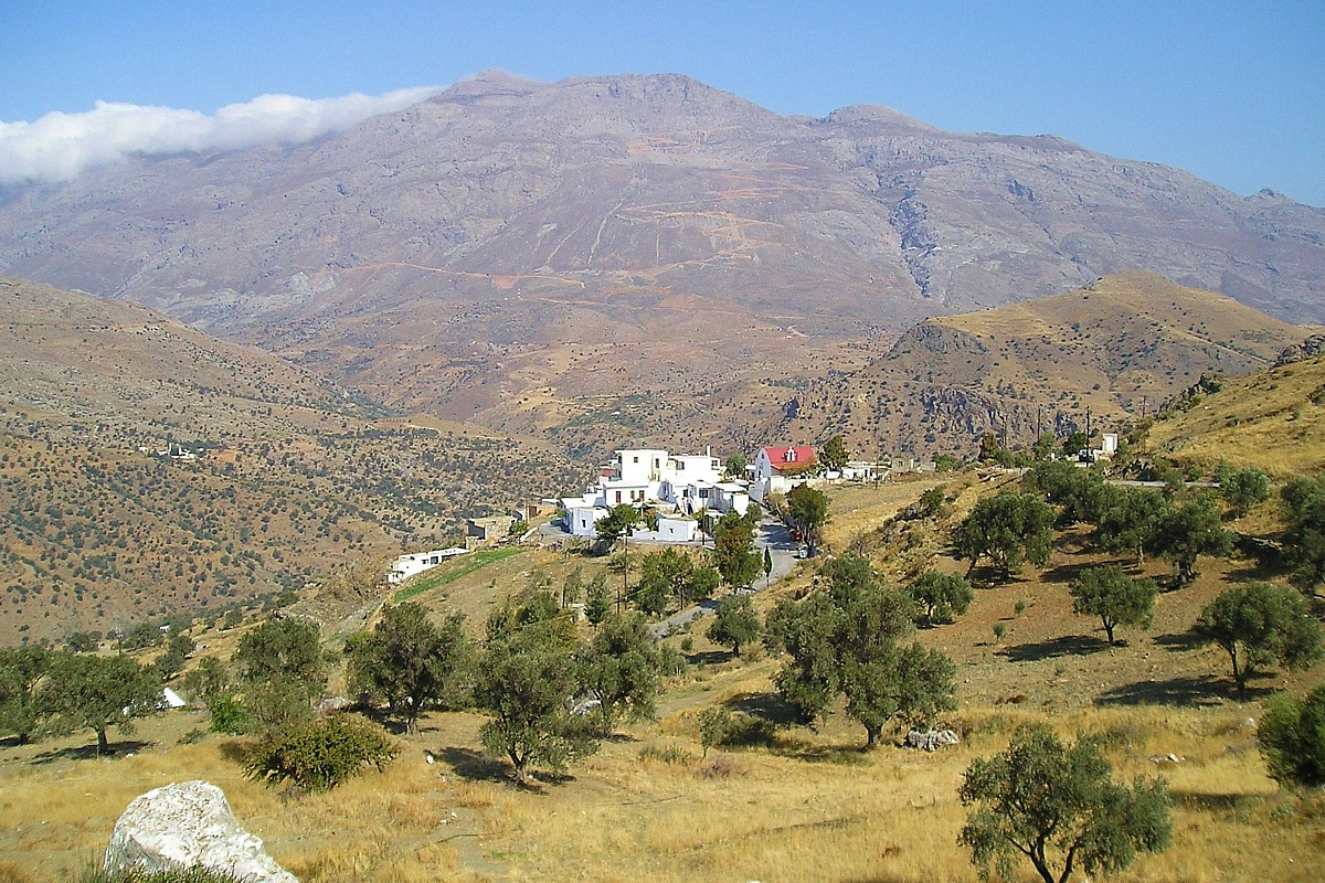 Mountains and small village of Kato Saktouria in Southcrete